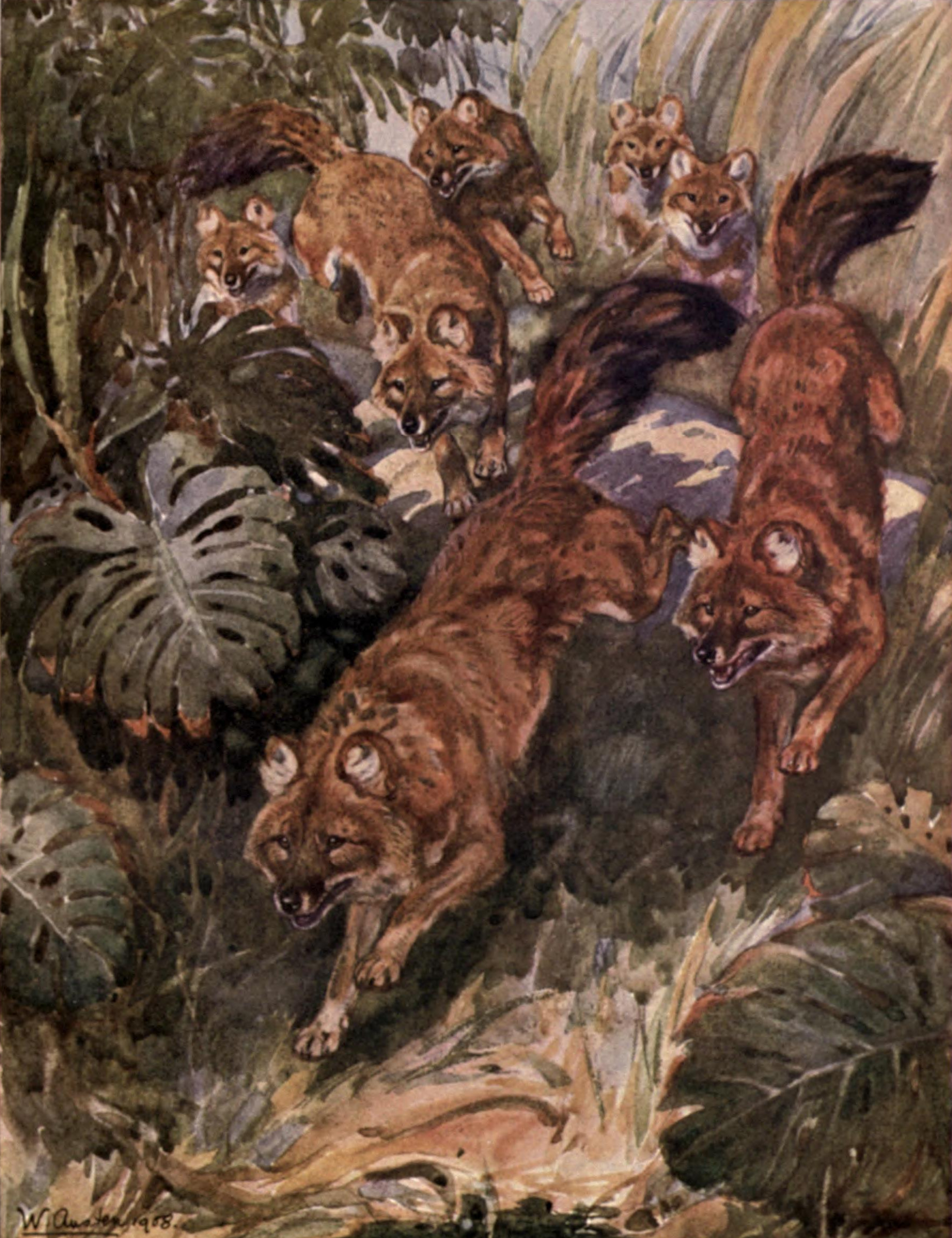 A dhole pack, as illustrated by Winifred Austen